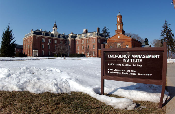 Emmitsburg, MD, March 10, 2003 -- The campus of FEMA's National Emergency Training Center, located in Emmitsburg, Md., offers a beautiful environment for first responders, emergency managers and educators to learn state-of-the-art disaster management and response. Photo by Jocelyn Augustino/FEMA News Photo